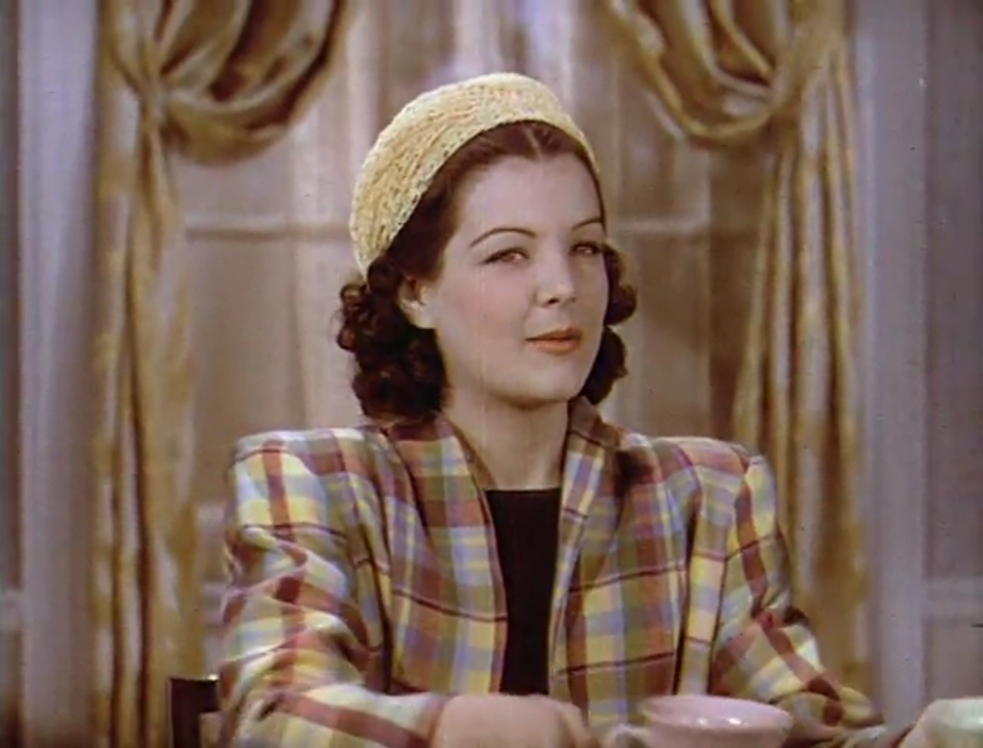 Scene from The Middleton Family at the New York World's Fair. claims this video as public domain, so I boldly believe the copyright has expired.